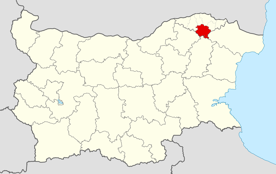 Location map of Dulovo Municipality within Bulgaria and Silistra Province. Equirectangular projection, N/S stretching 130 %. Geographic limits of the map: N: 44.4° N S: 41.1° N W: 22.1° E E: 28.9° E